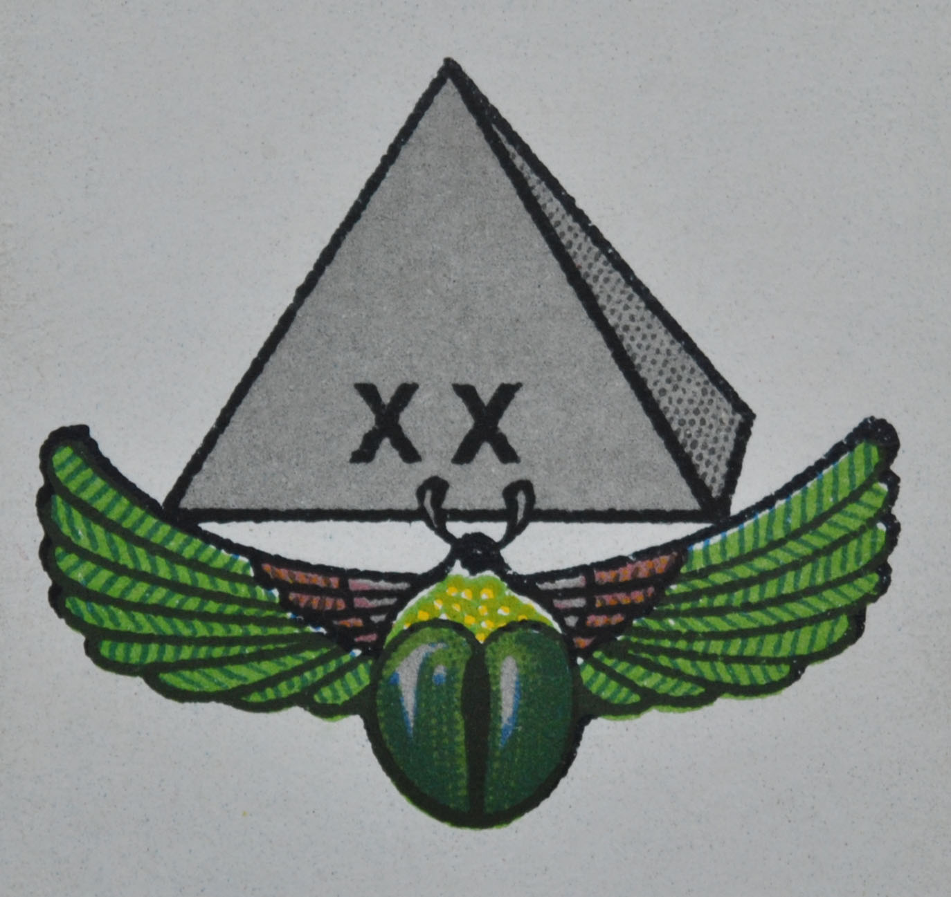 Formation sign for the British XX Corps in the First World War